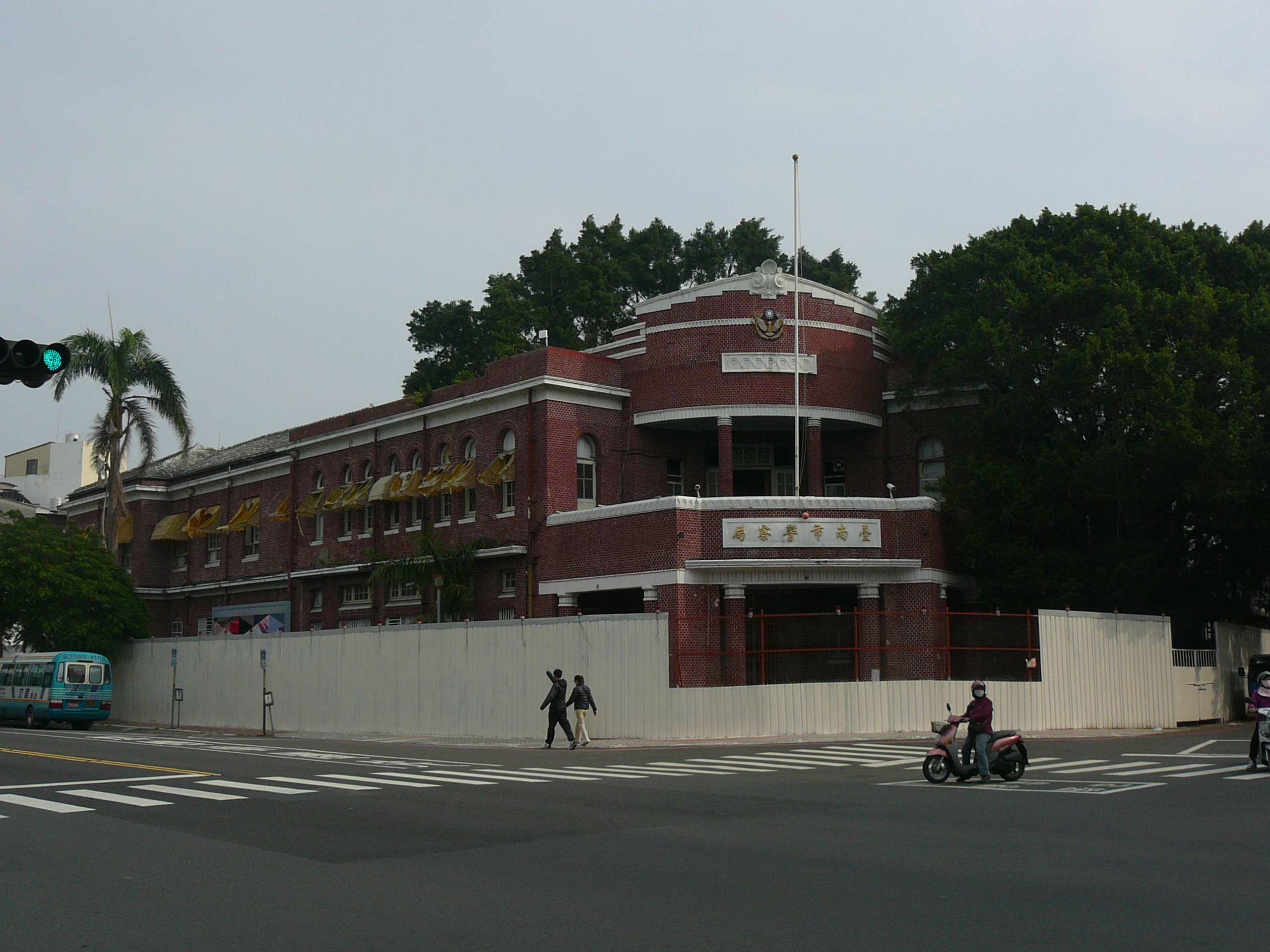 the headquarters of the Tainan Police Bureau